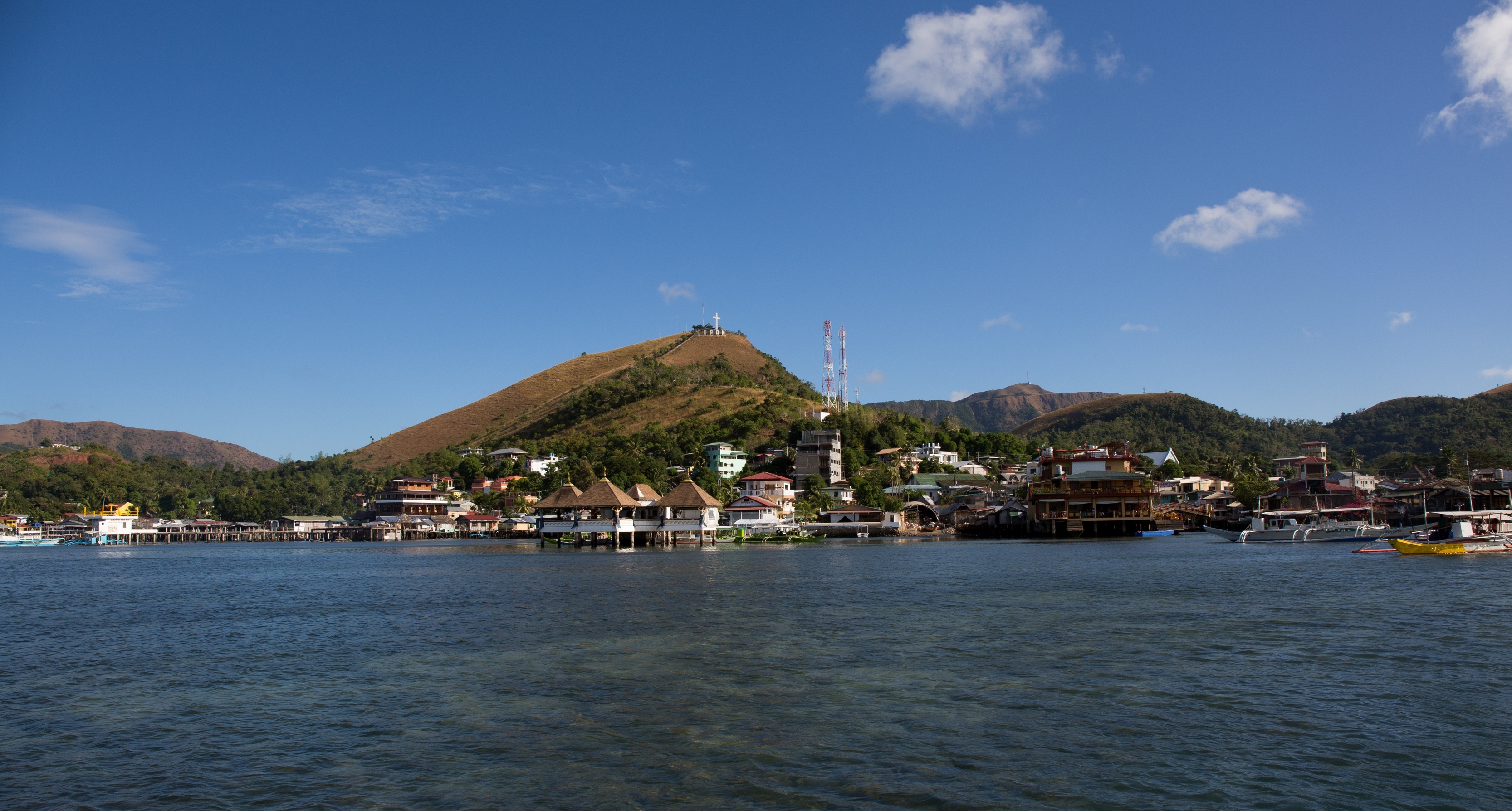 Coron town on Busuanga island. Philippines